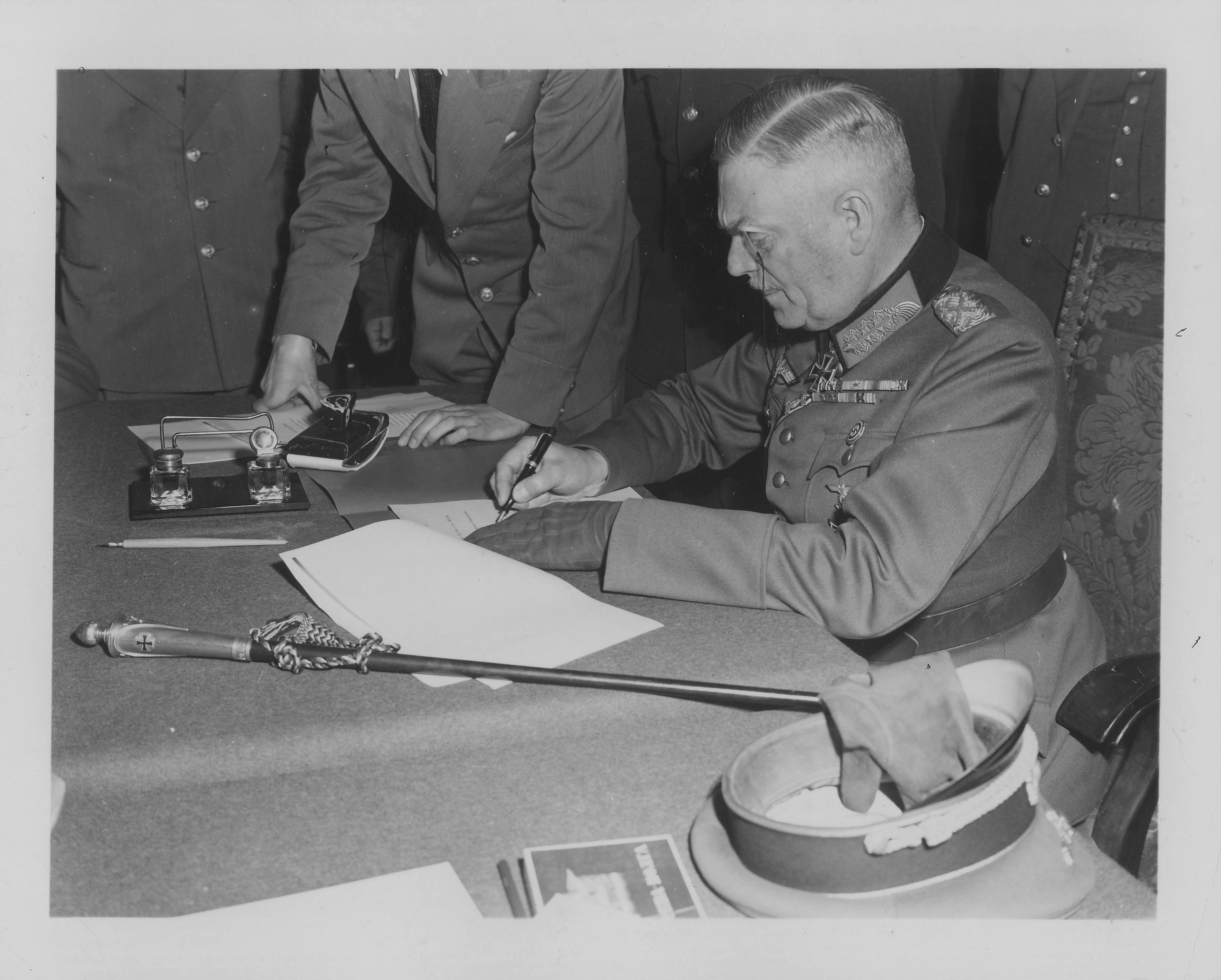 Field Marshall Keitel signs German surrender terms, in Berlin.